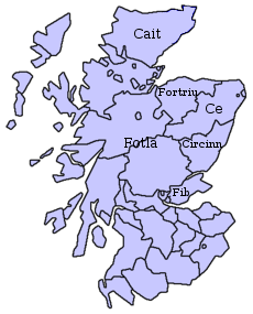 Approximate locations of the various Pictish kingdoms